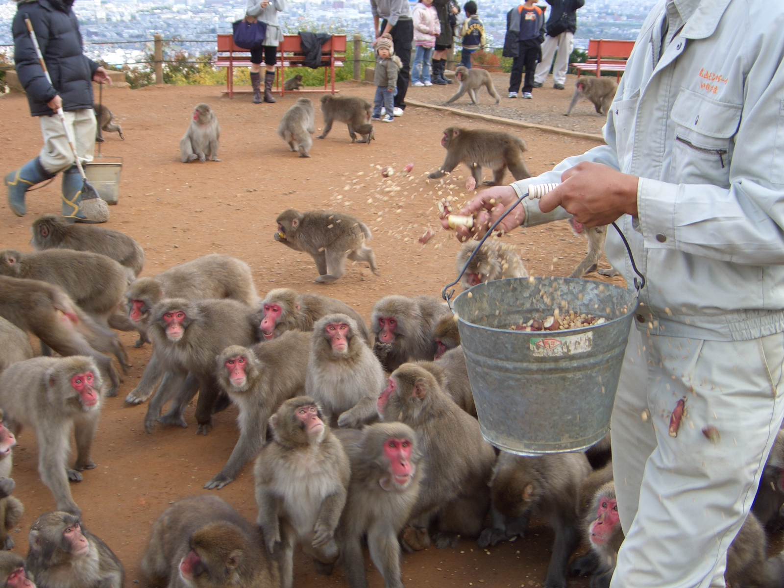 Feeding time. Arashiyama Monkey park Iwatayama.